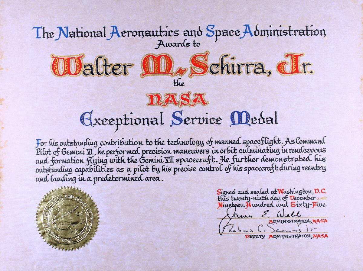 NASA Exceptional Service Medal awarded to Walter Schirra in 1965 ou 1966. Repository: San Diego Air and Space Museum Archive